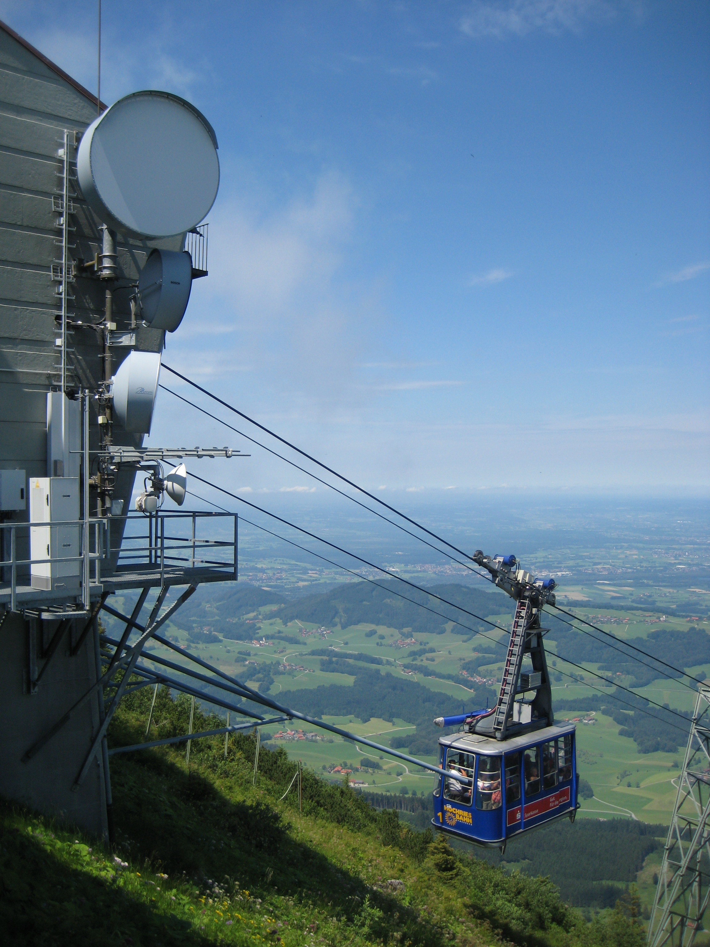 Hochries